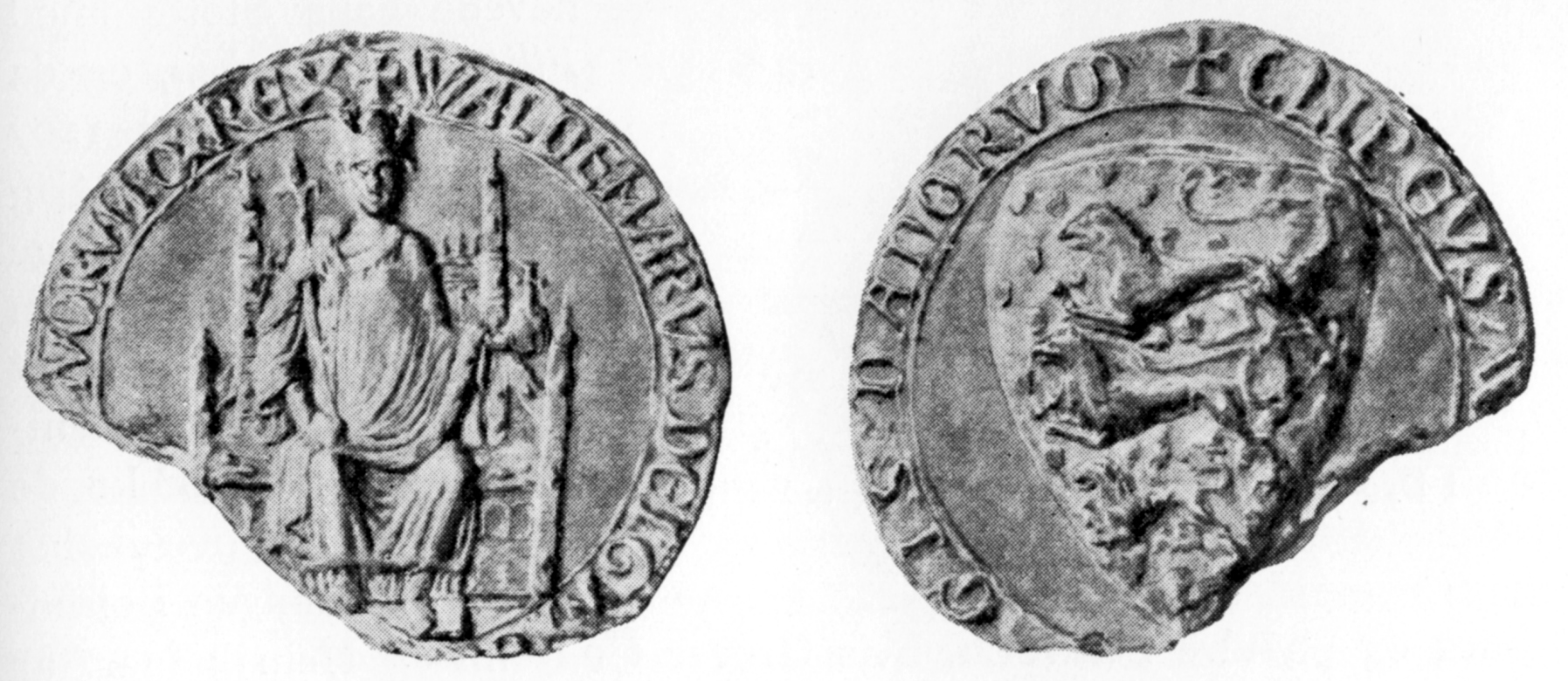 Seal of Danish King Valdemar the Victorious (Valdemar 2. Sejr). This seal is known from documents dating 1204-1241.